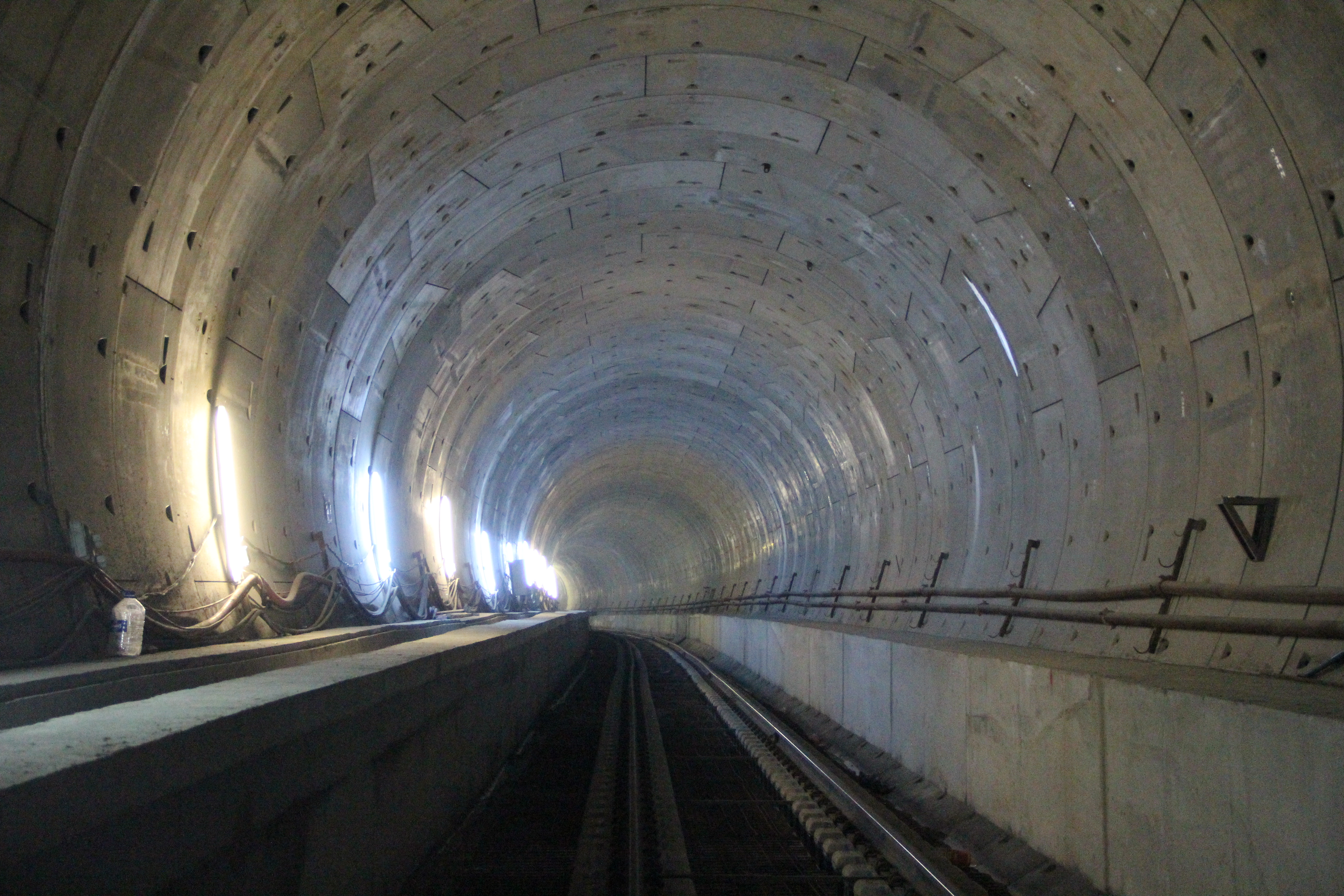 Marmaray Project